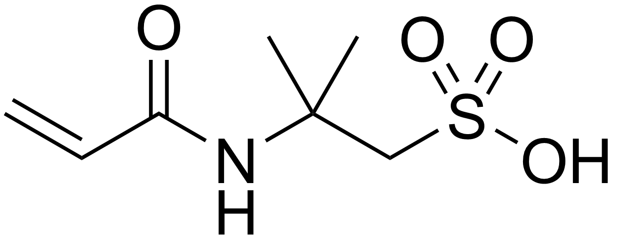 chemical structure of 2-Acrylamido-2-methylpropane sulfonic acid (AMPS)